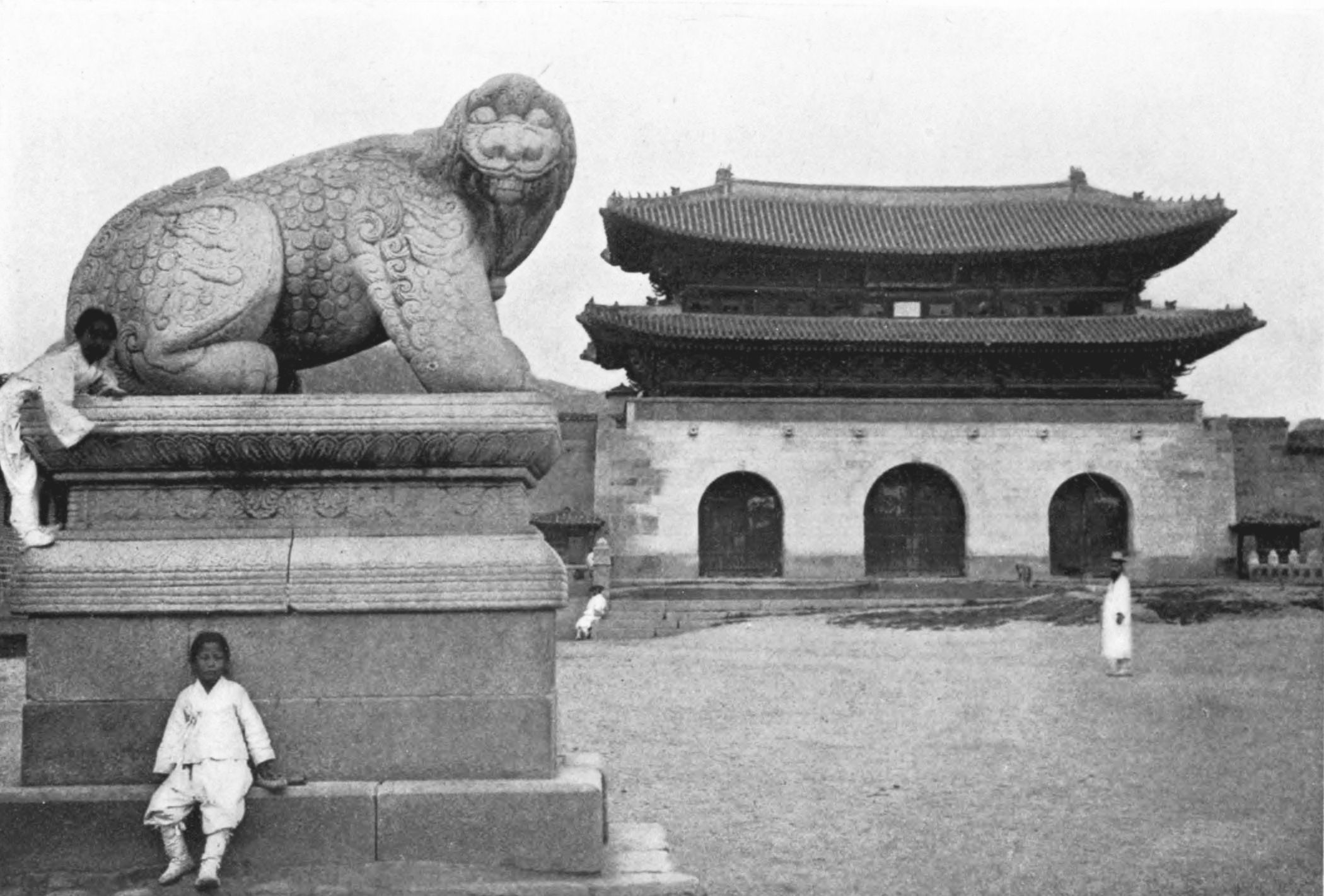 Stone dog, guardian of palace against fire, Korea c.1900; /379. The passing of Korea (book)